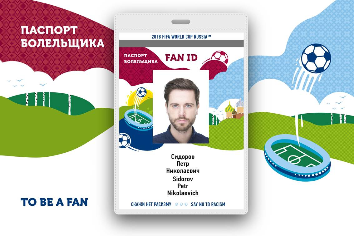 A new design of a Fan-ID, which is required for all spectators at matches of the 2018 FIFA World Cup in Russia. It was presented and adopted by the Russian Ministry of Telecom and Mass Communications on 26 October 2017.